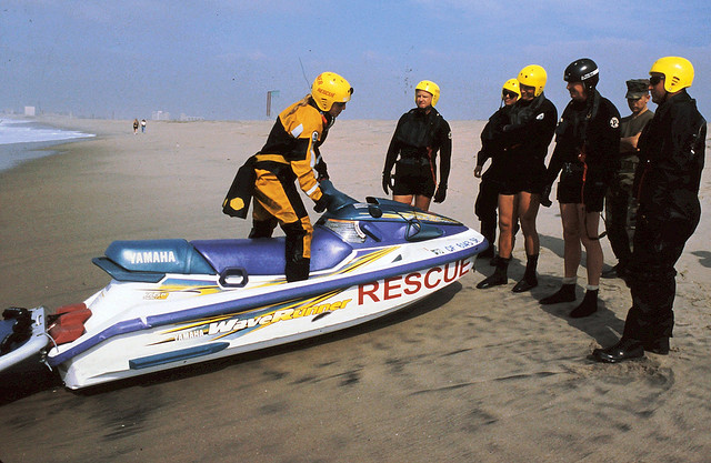 In 1996 Recon Marine Vince McLeod was tasked to discover a lifesaving recover asset for Marines who were conducting surf passage training.